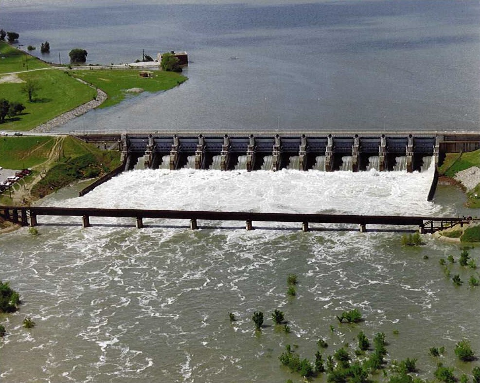 Aerial view of Lavon Dam and Lake on the East Fork of the Trinity River in Collin County, Texas, USA. The dam was constructed in 1953 by the U.S. Army Corps of Engineers for flood control and water supply. View is to the north Coordinates: 33°02′40″N 96°27′56″W / 33.04444°N 96.46556°W